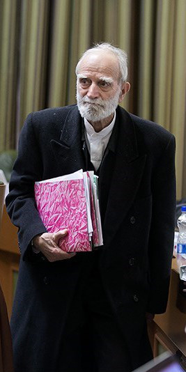 Sheybani in the City Council of Tehran. (Jan 2015)